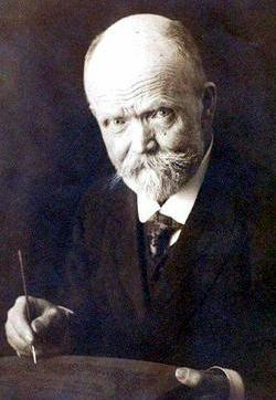 Swedish (image) artist Per Erik "Pelle" Hedman (1861-1933) a.k.a. P.E. Hedman (usual signature), as released by image owner FamSACPlace: Probably Duvnäs, Borlänge, Sweden